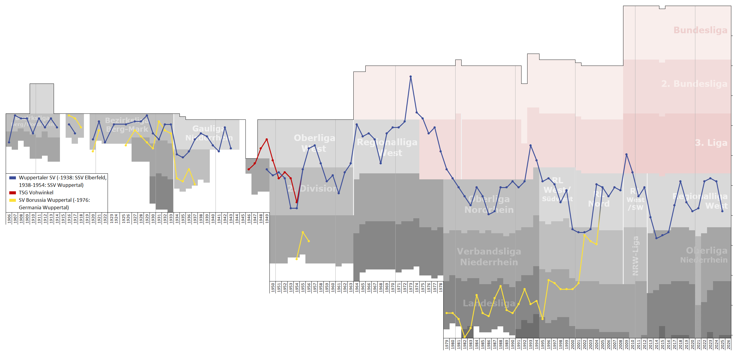 Chart of end-season table positions of Wuppertaler SV in the football league system of Germany. Data source: RSSSF, wikipedia, f-archiv.de, fussball.de